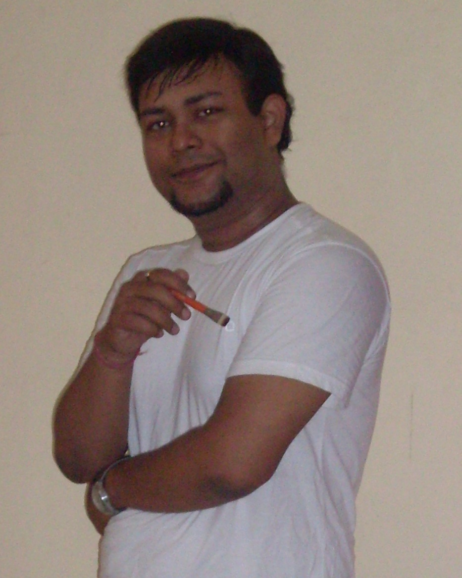 This is Picture of notable Indian Artist Pranava Prakash, which I am including to make the article by same name more useful. This I have photographed at a galleryin Delhi and using with the permission from the artist.